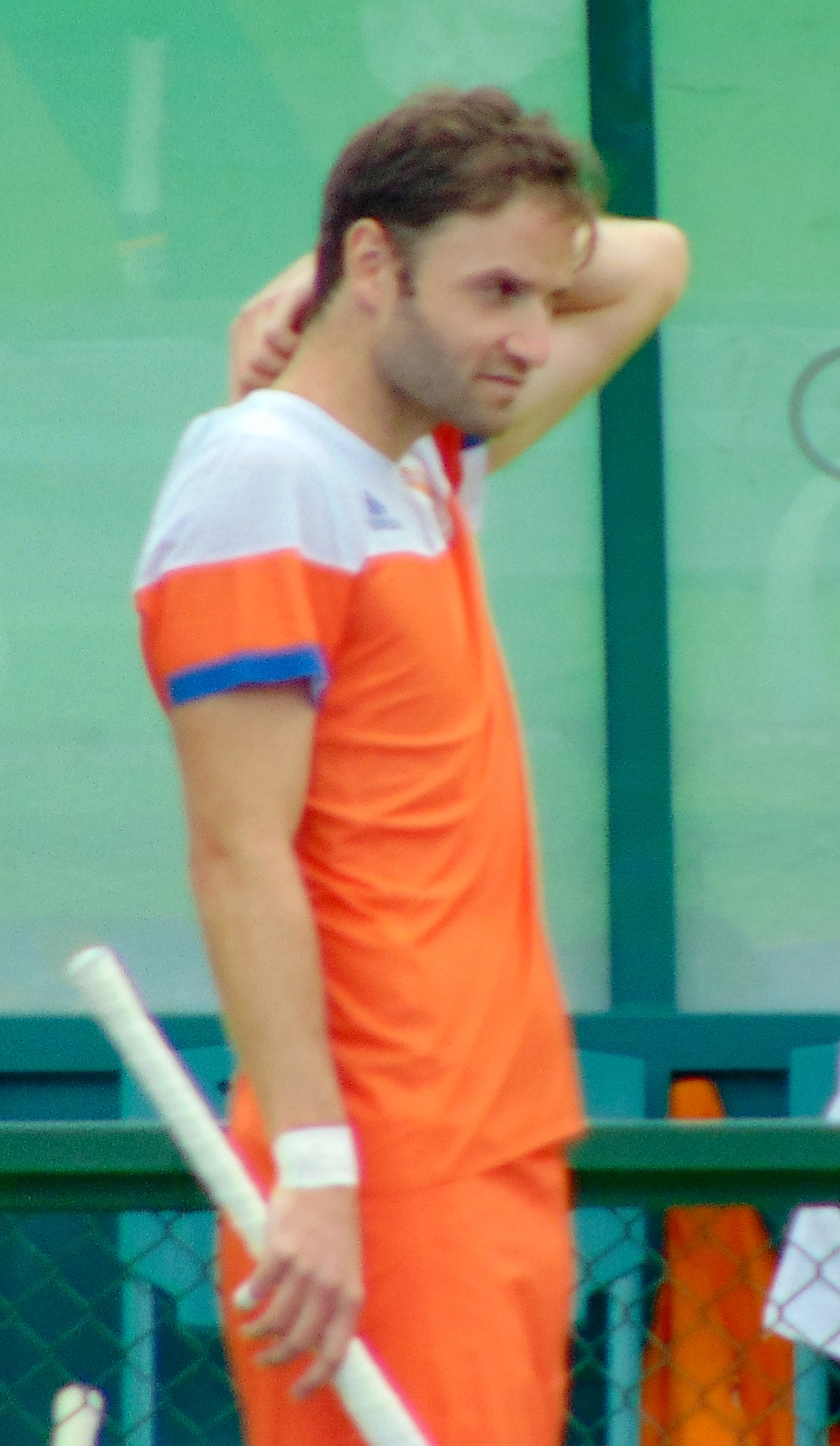 Rio 2016 - Men's and Women's Field hockey (HO025)